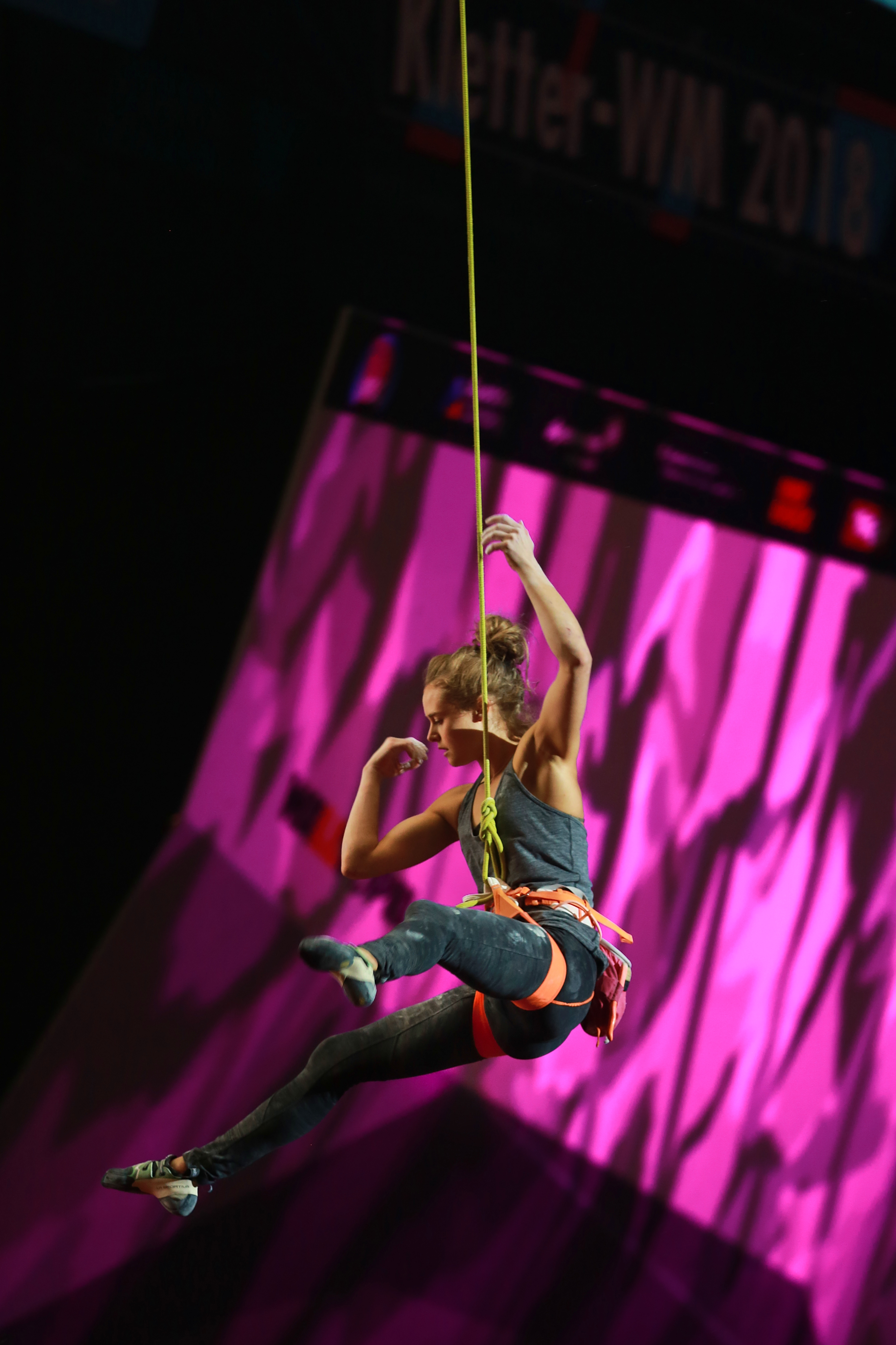 Climbing World Championships 2018 Lead Semi Hayes